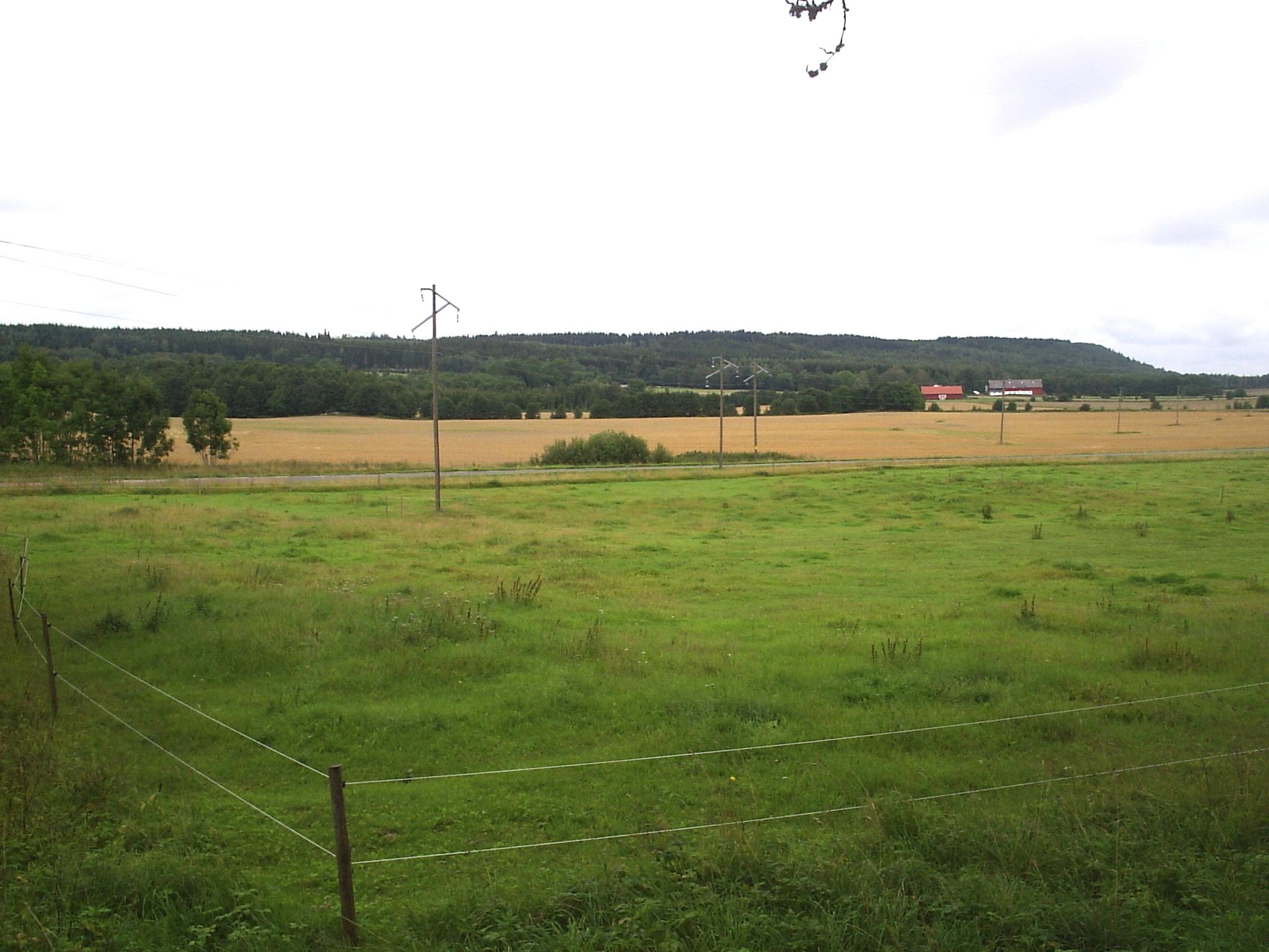 Photo by Harri Blomberg.